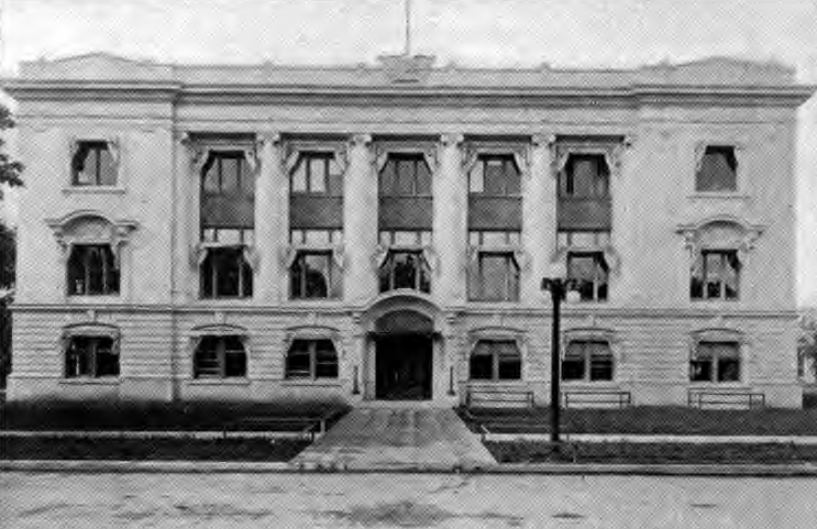 Oregon Supreme Court Building in Salem. From: Carey, Charles Henry. (1922). History of Oregon. Pioneer Historical Publishing Co.